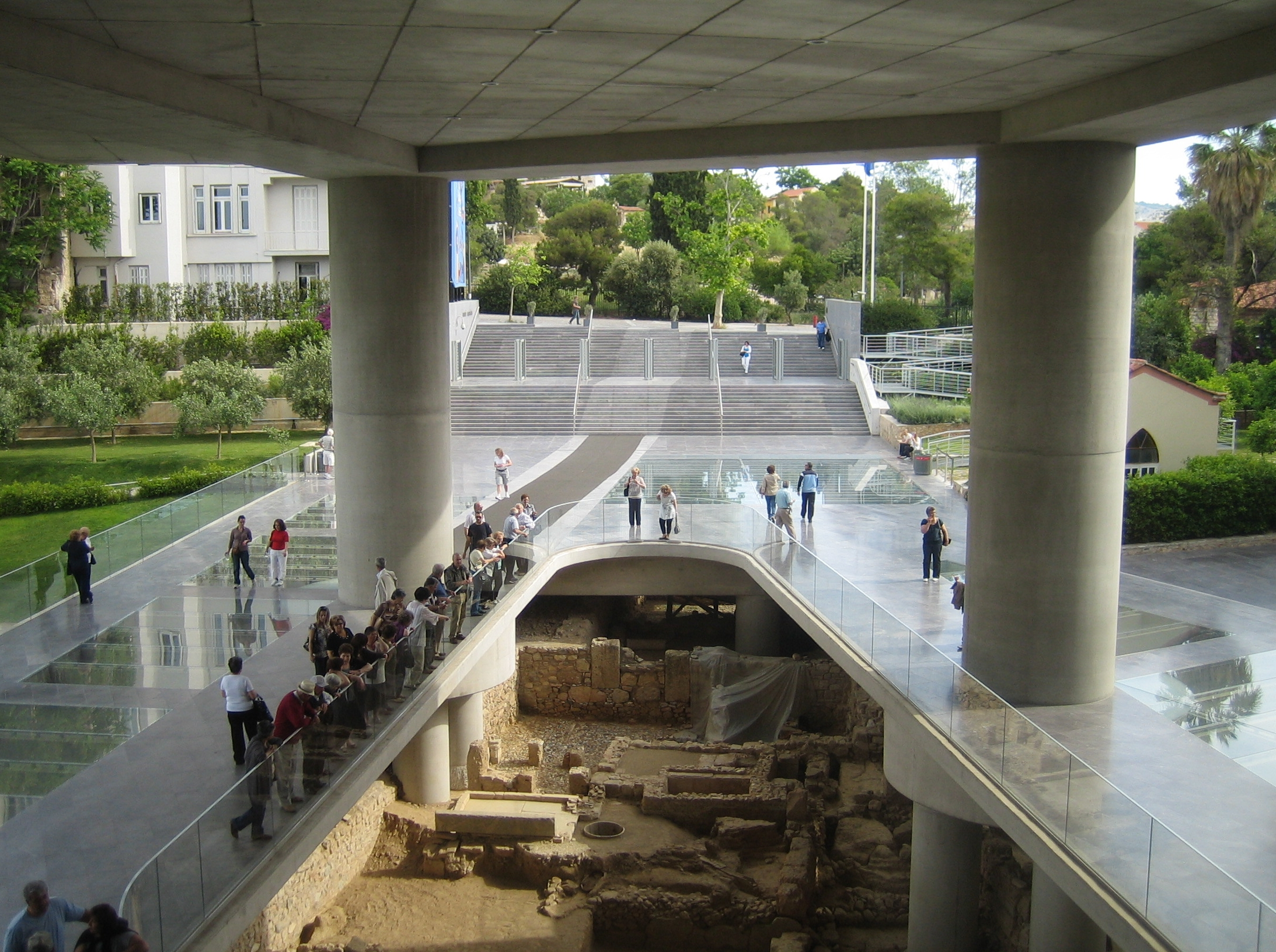 New Acropolis Museum, Athens. Ruins in the entrance.